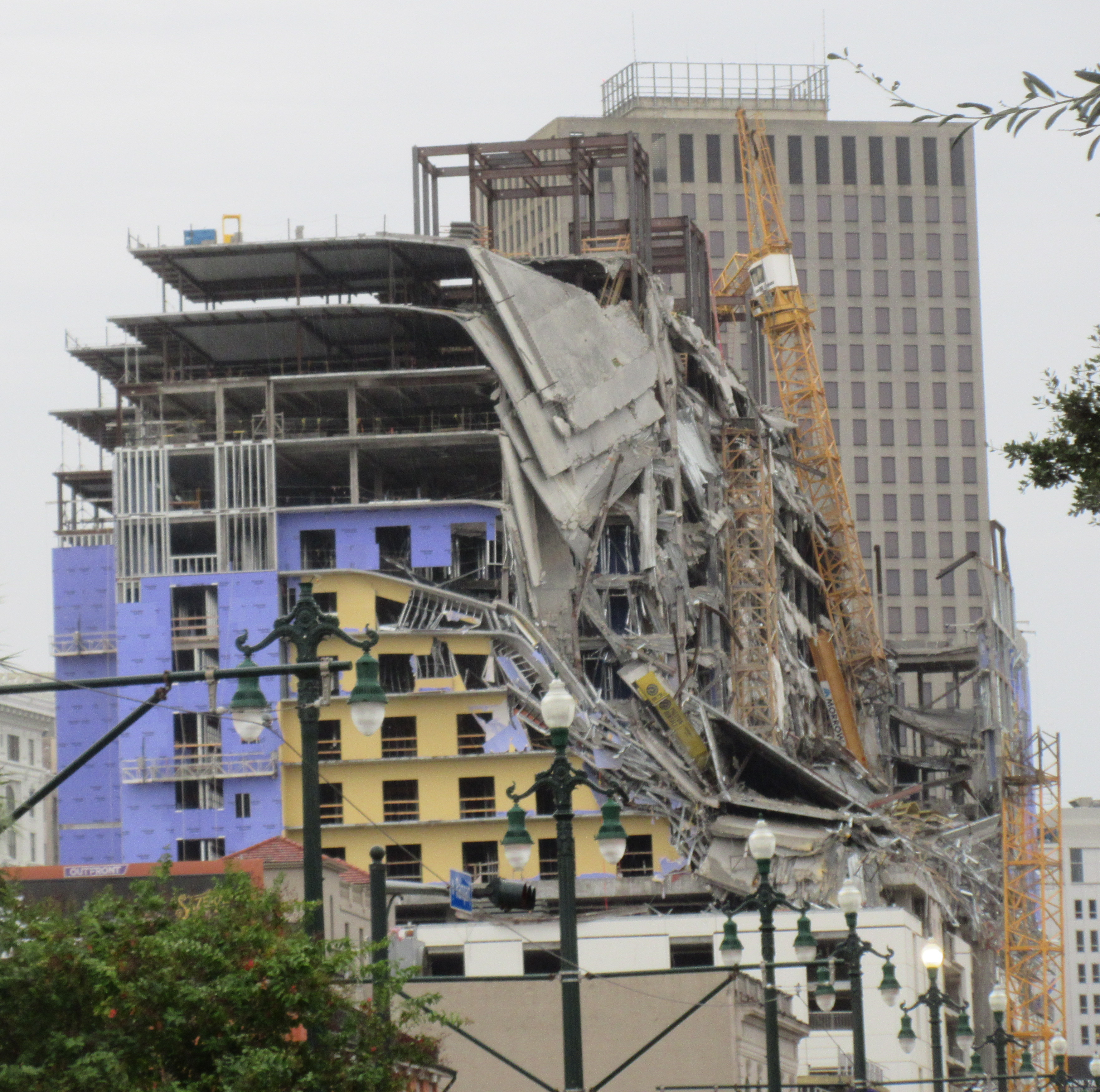 New Orleans. View towards the partially collapsed Hard Rock Hotel building the morning after explosive demolition of damaged cranes attached to the building. Seen from Rampart Street.